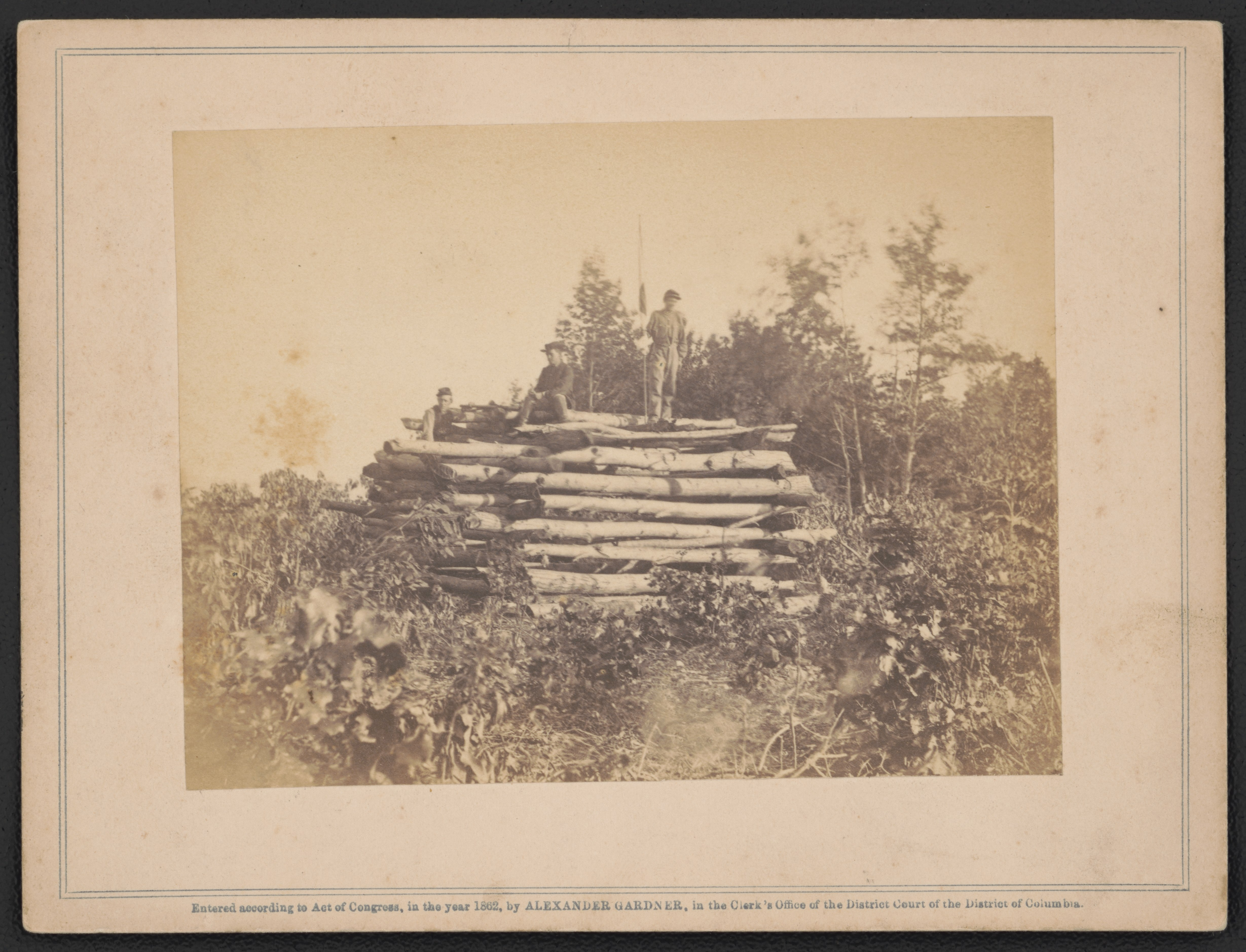 Title: Signal tower, on Elk Mountain, overlooking battle-field of Antietam Abstract/medium: 1 photograph : albumen print on card mount ; mount 12 x 16 cm (half stereograph format)